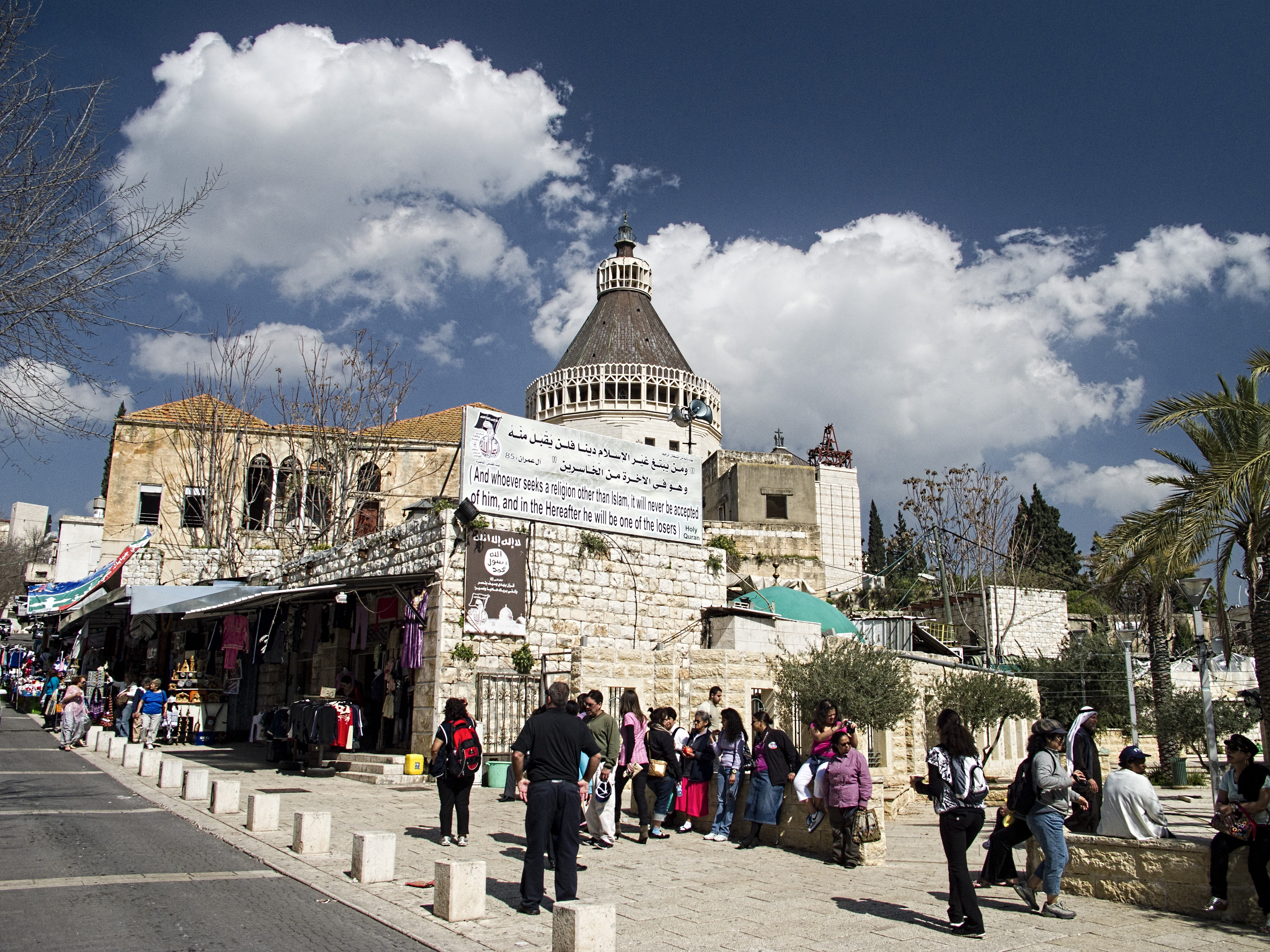 A less-than-ecumenical billboard in the foreground (non-Muslims are losers!) with the Church of the Annunciation in the background which purports to be the site of Mary's home in Nazareth. On Google Earth: Church of the Annunciation 32°42'7.16"N, 35°17'52.68"E Israel. 20110223 Israel 0250 Nazareth (5539870213).jpg